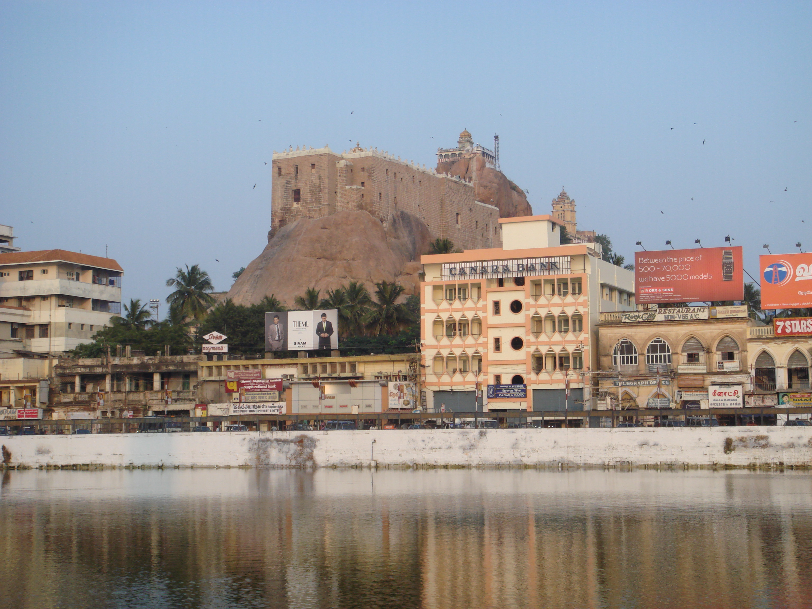 The Rock Fort Temple in Tiruchirappalli (Tamil Nadu, India).